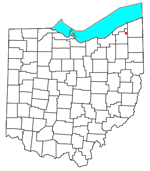 Locator map of the unincorporated community of Montville in Geauga County, Ohio, United States.